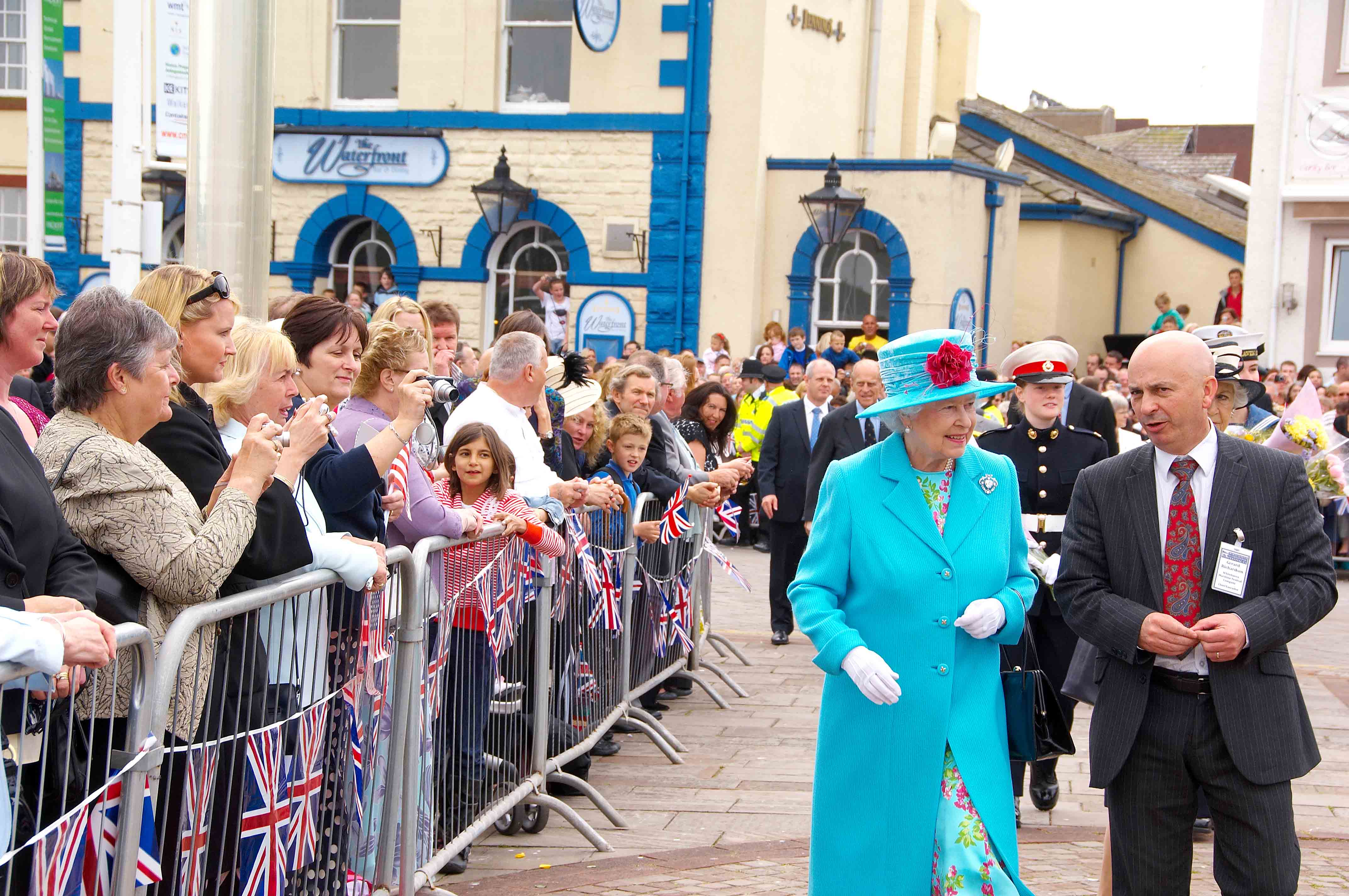 Gerard Richardson hosting the Royal visit to Whitehaven in 2008